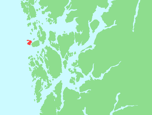 Locator map of Stolmen, Hordaland, Norway